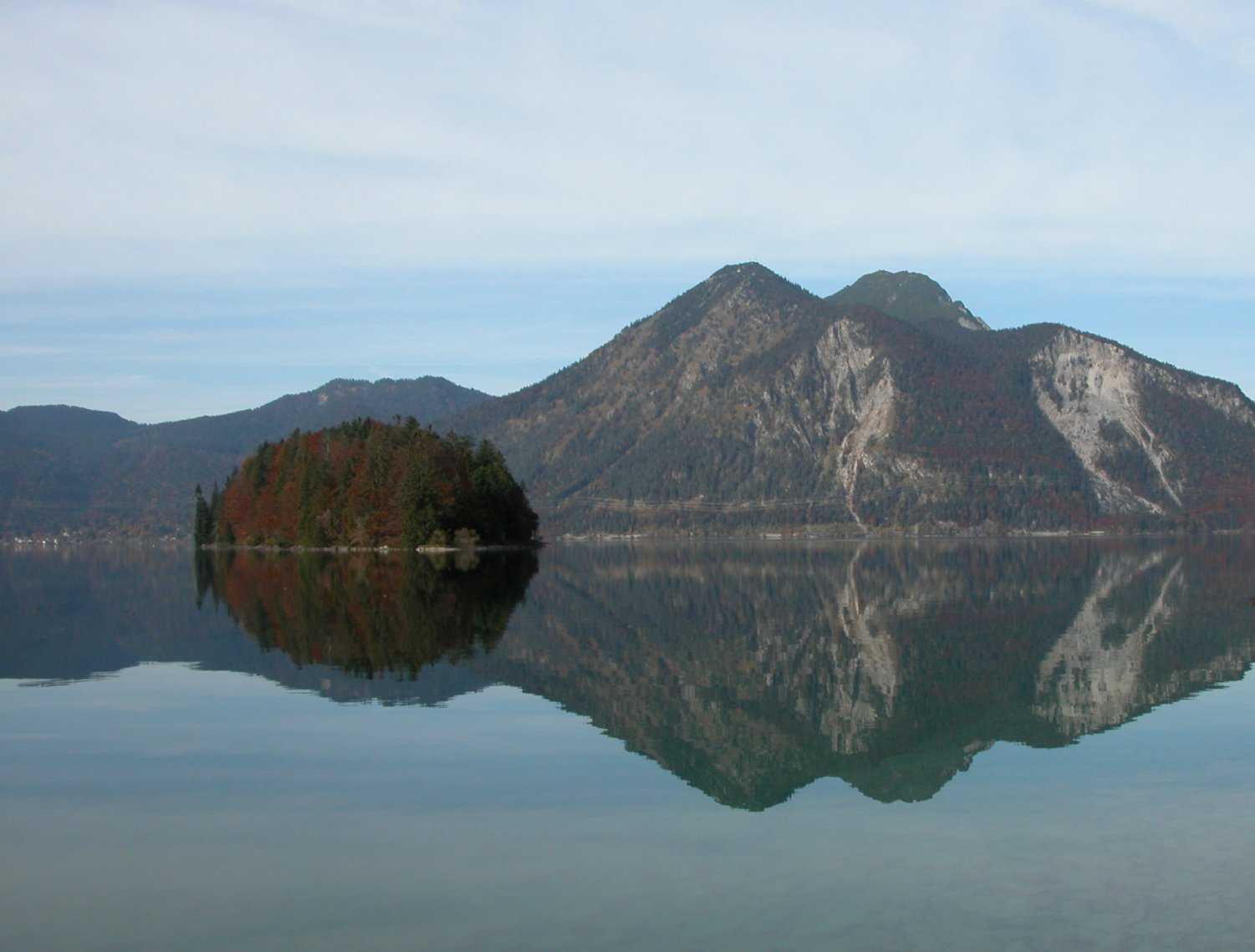 The little island "Sassau" (Lake Walchensee)